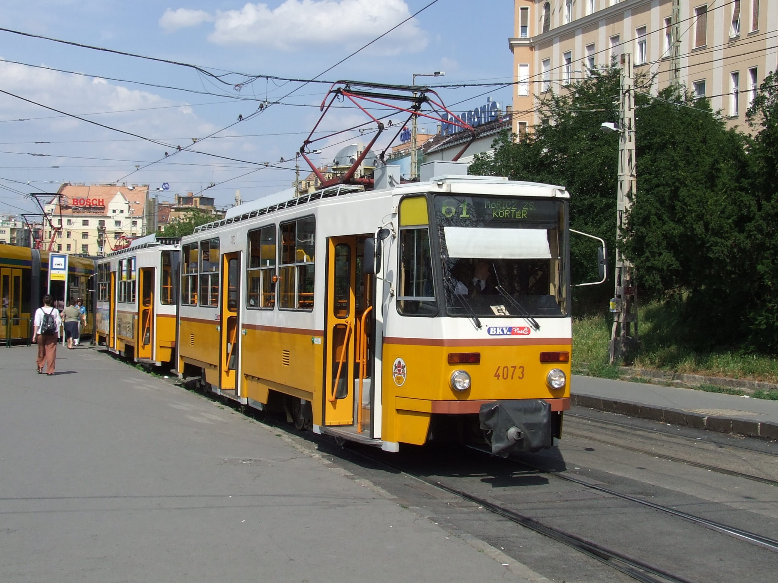 Tatra T5C5K tram in Budapest, Moszkva square.